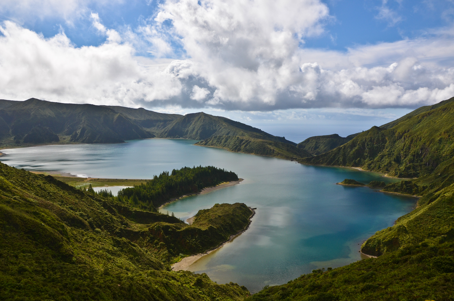 A view of Lagoa do Fogo, Azores, Portugal